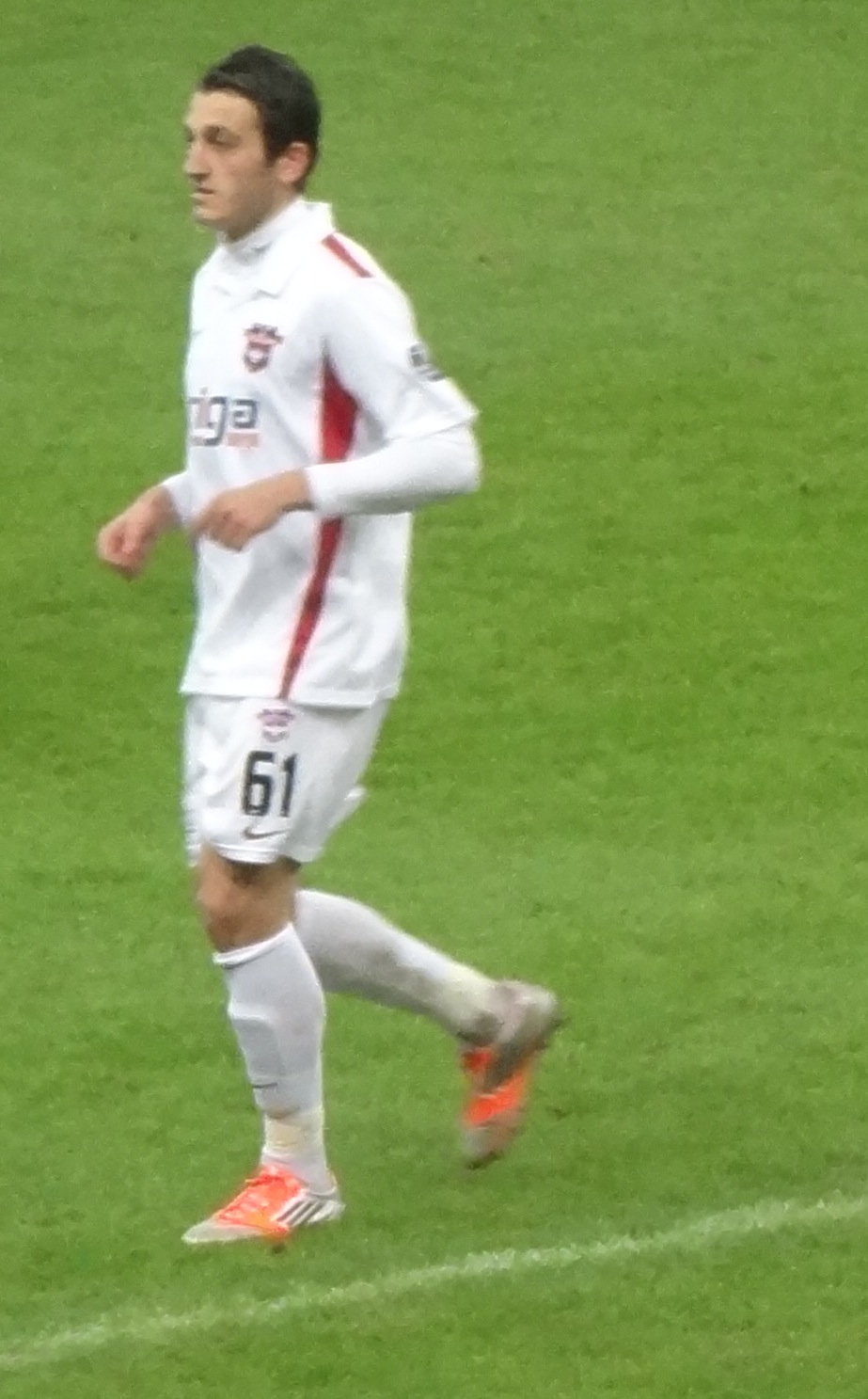 Orhan against GS